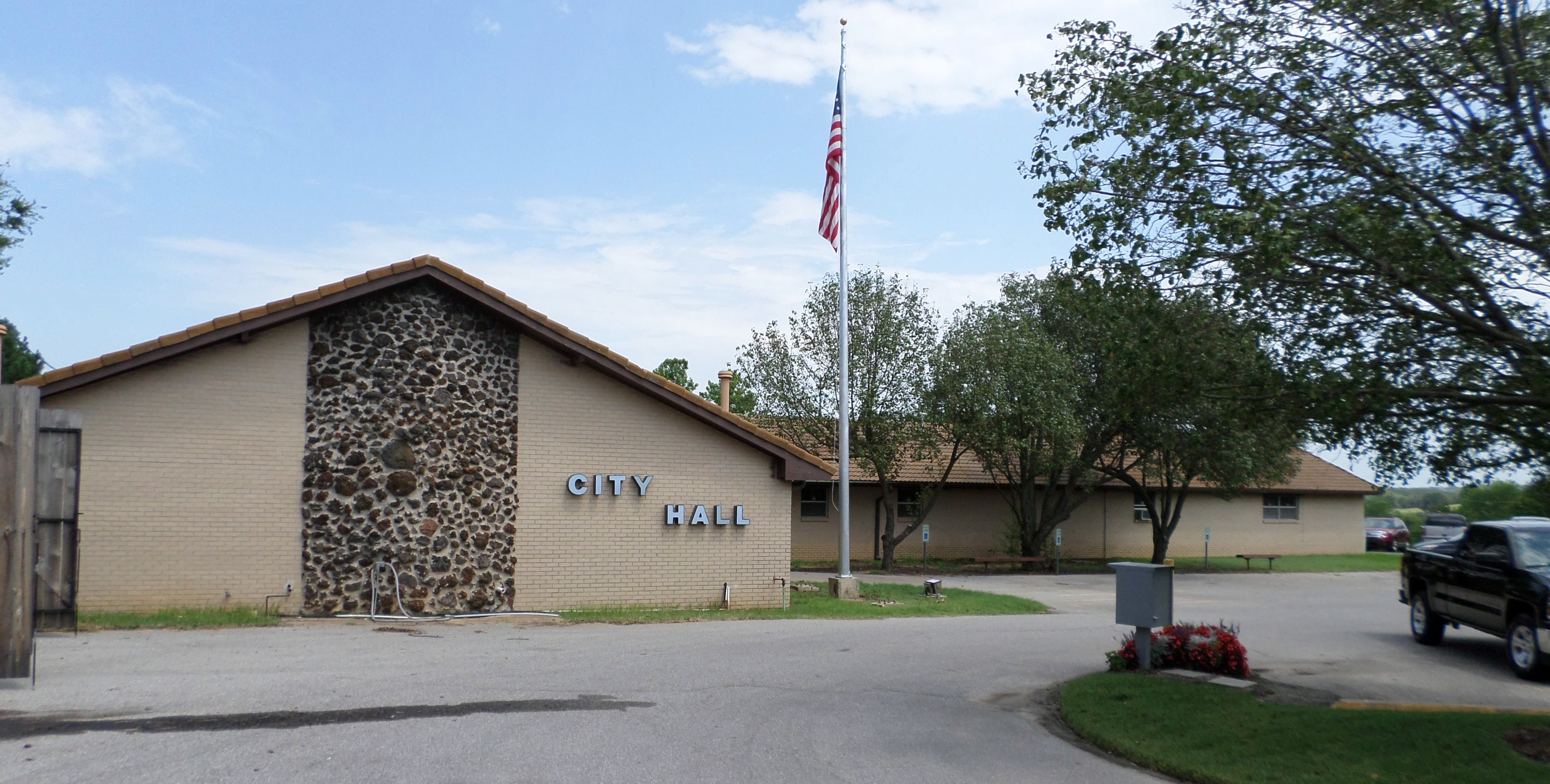 Choctaw City Hall, located at 2500 N. Choctaw Rd., Choctaw, OK. The building was originally built by the Bethel Church of Choctaw.